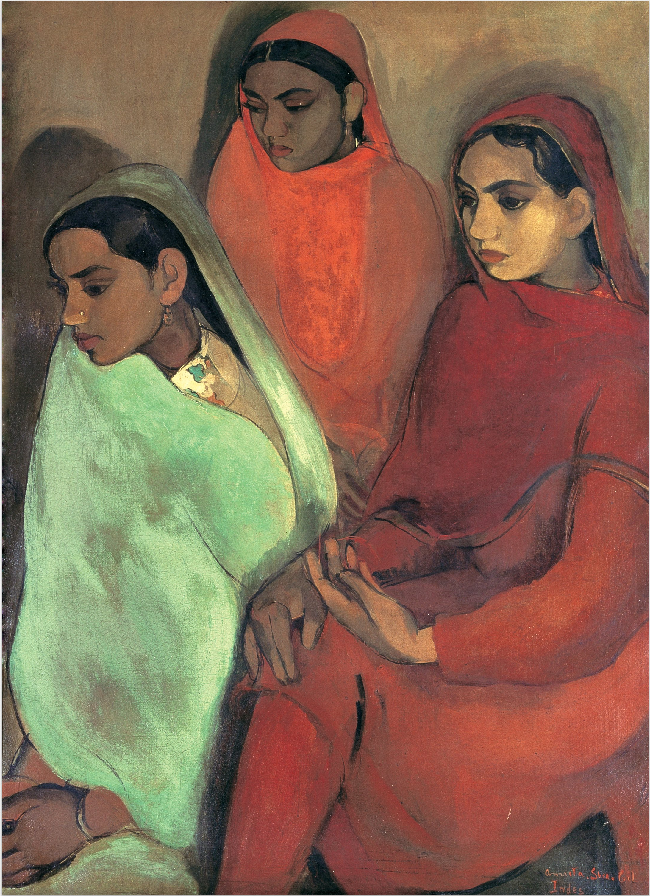 Group of Three Girls, by Amrita Sher-Gil, won her a gold medal from the Bombay Art Society. National Gallery of Modern Art (NGMA), New Delhi. Oil on Canvas, 73.5 X 99.5 cm.